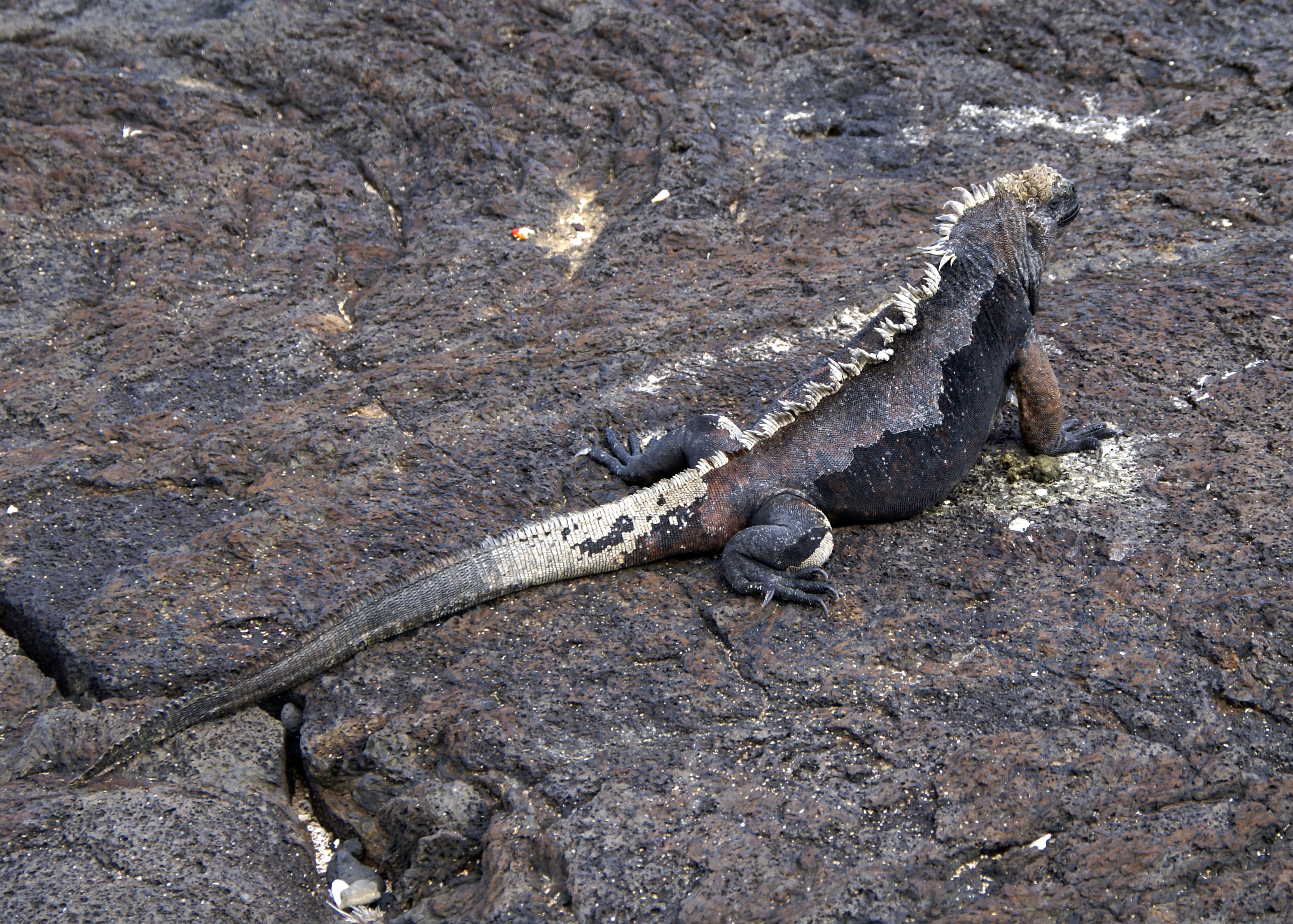 A Marina Iguana (Amblyrhynchus cristatus) at the Santiago Island (Galapagos Islands).